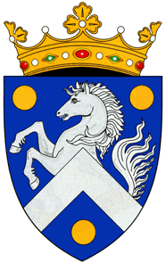 CoA of Rajon Ungheni